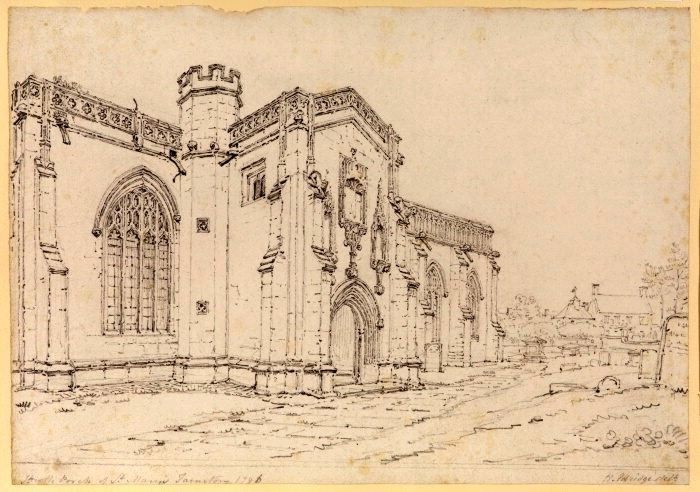 View of St. Mary's church at Taunton - Graphite on paper Height: 19.4 cm; Width: 27.5 cm